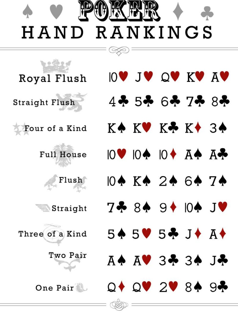 This chart of poker hand rankings shows you all possible poker hands, ranked by their strength.